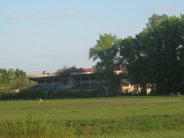 Tver_hippodrome , opened in 1922.